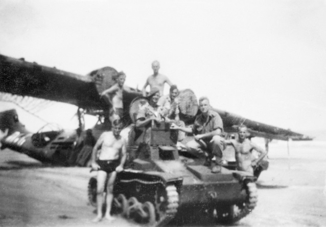 AWM caption : Borneo: Balikpapan. Australian soldiers sit on a captured Type 92 Japanese tankette, serial number 88, on the beach. Left to right: Trooper Doug Jasprizza Trooper Kevin Brett Trooper Brian Bourke (sitting in turret) Trooper John Dean Trooper Bert Castellari Trooper Max Watkins Trooper Tom Gallagher (who is naked). The tankette was captured on 1 July 1945 by the 2/9th Battalion of the 18th Infantry Brigade, who handed it over to the 1st Australian Armoured Regiment to keep it running. The tankette was the first of its kind to be found in the South West Pacific area by Australian troops. On 27 December 1945 it was transported to Australia on the SS Winchester Victory. In the background is a wrecked Catalina aircraft from No 42 Squadron. The tankette is now held in the collection of the Australian War Memorial with accession number REL/16287.